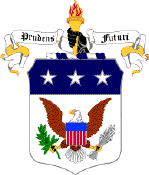 U.S. Army War College Device[1]